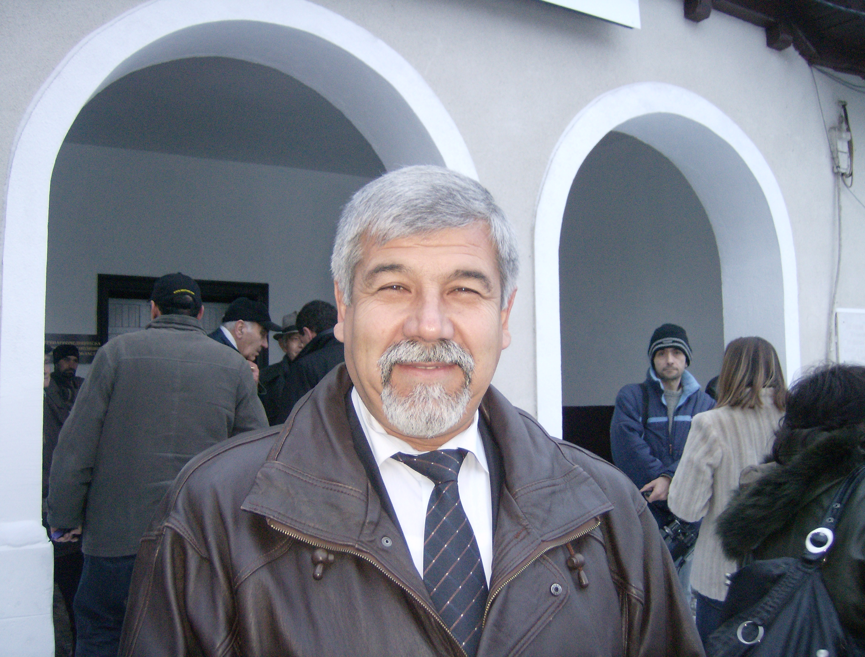 dr.Sevi Sevev Mayor of Smyadovo